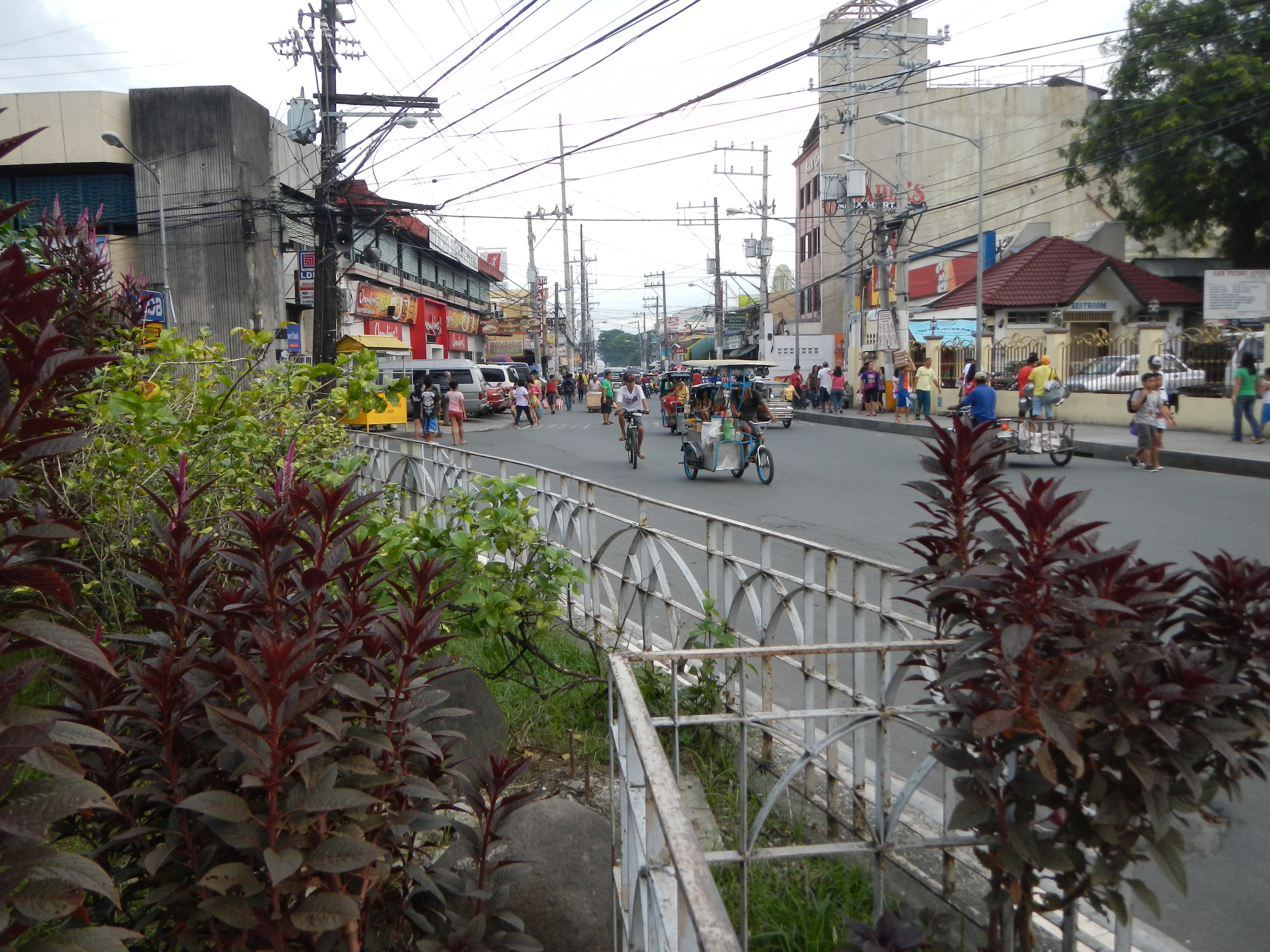 Centro, business center, surrounding the Church and Old Municipal building of -- --- San Pedro, Laguna [1] San Pedro City, or officially known as the City of San Pedro (Filipino: Lungsod ng San Pedro) is a first class city in the province of Laguna, Philippines is Laguna's gateway to Metro Manila, the latest census, it has a population of 294,310 inhabitants.